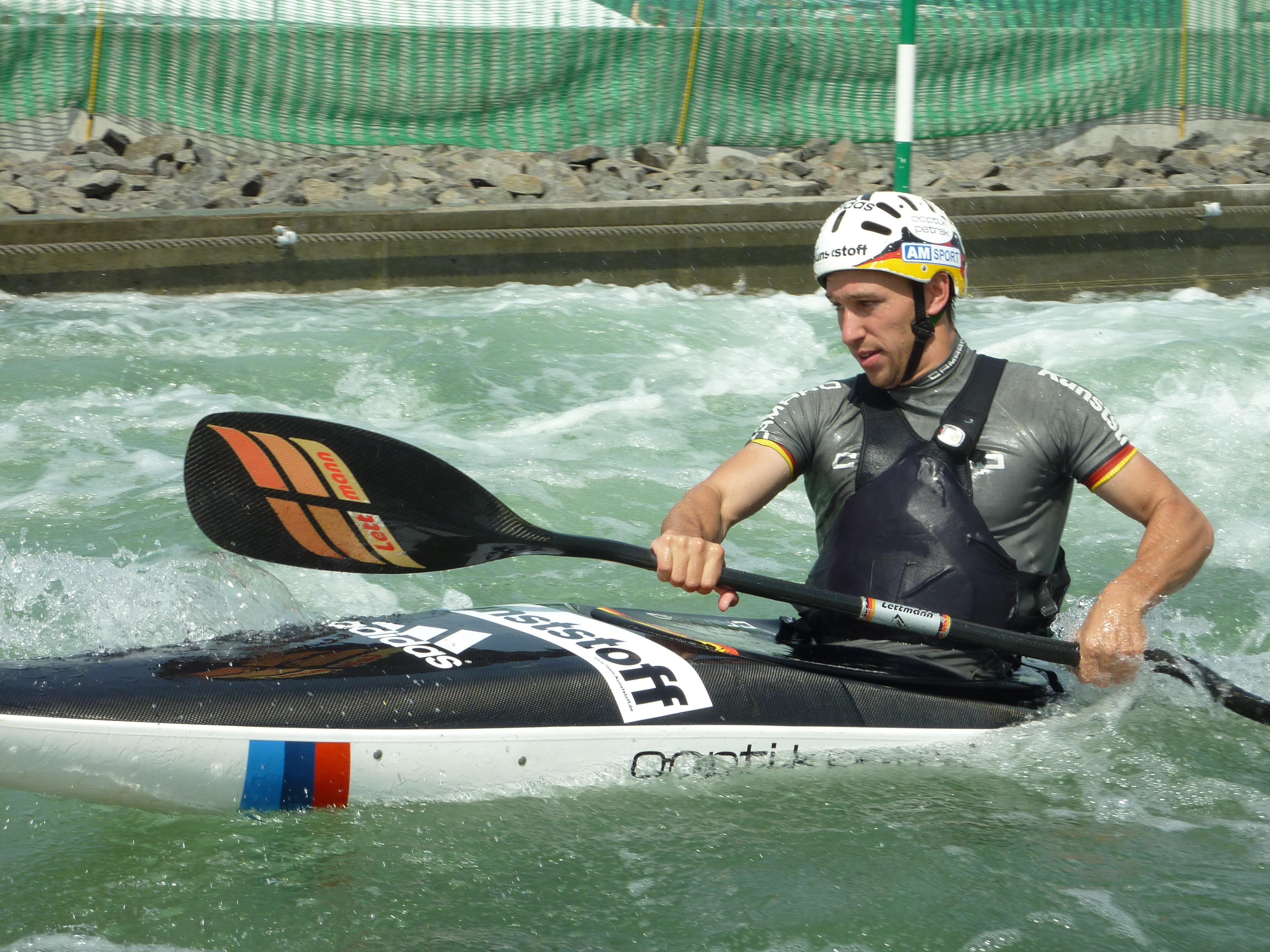 German Canoeist and World Champion in Canoe-Slalom